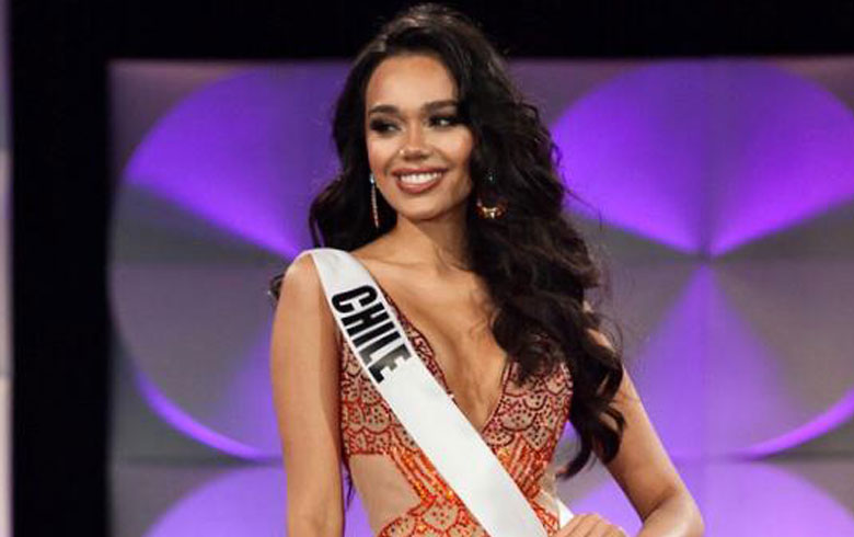 Miss Universo Chile 2019 en USA